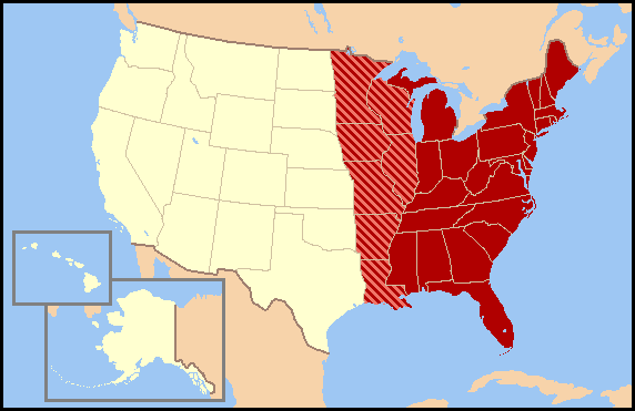 The maps series from the English wikipedia's Wikiproject: United States regions. The maps attempt to show, the various definitions of the regions without endorsing one over another.